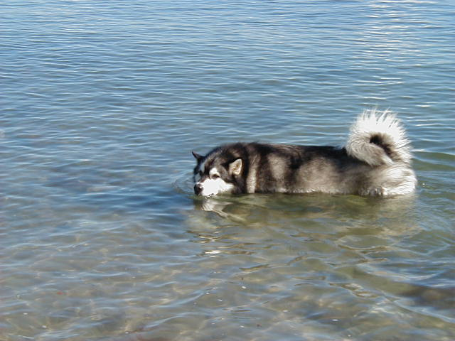 Own photo (author of danish wiki-article on Alaskan Malamute)